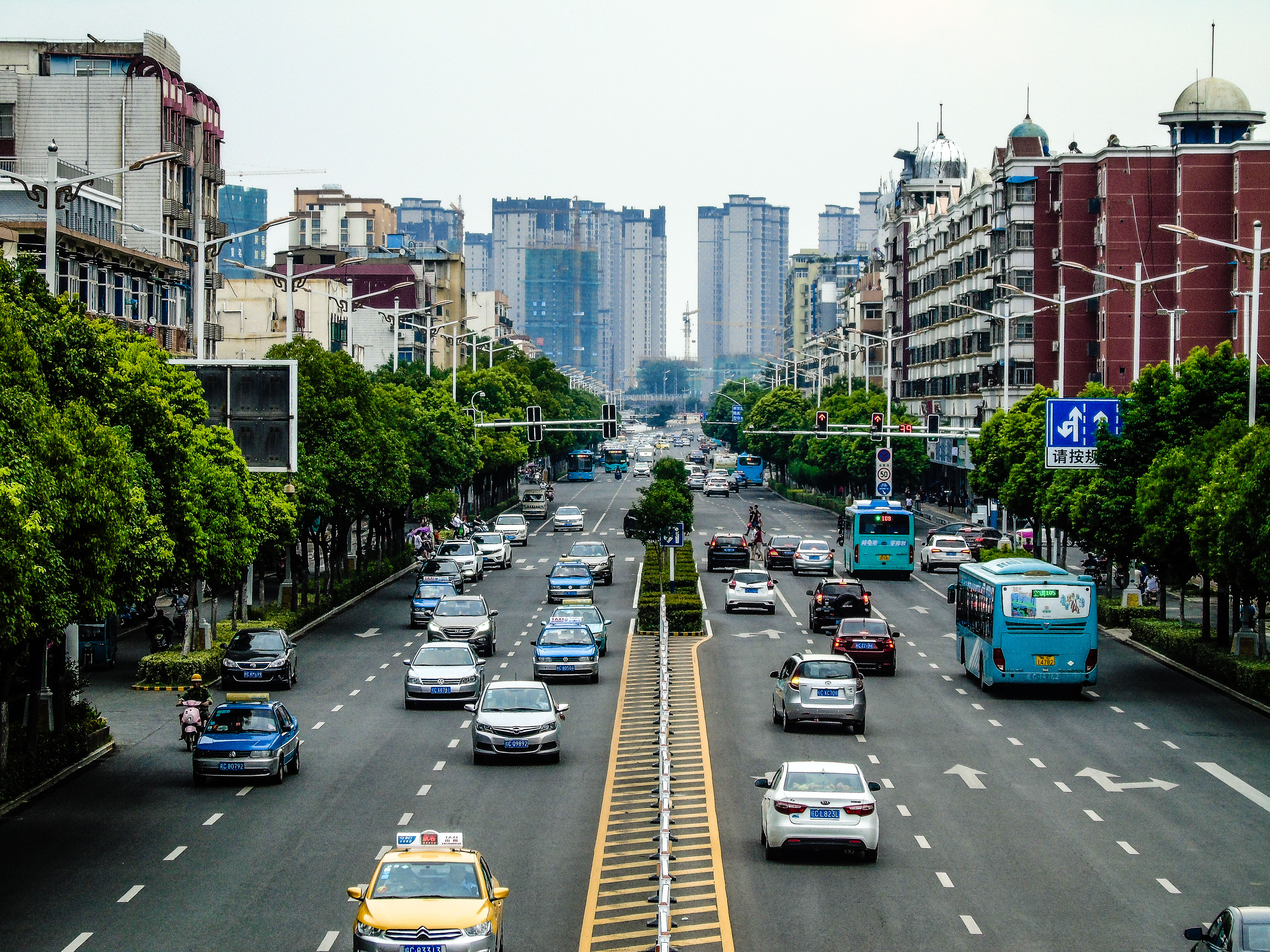 Bengbu Shengli Rd. Wast Orientation